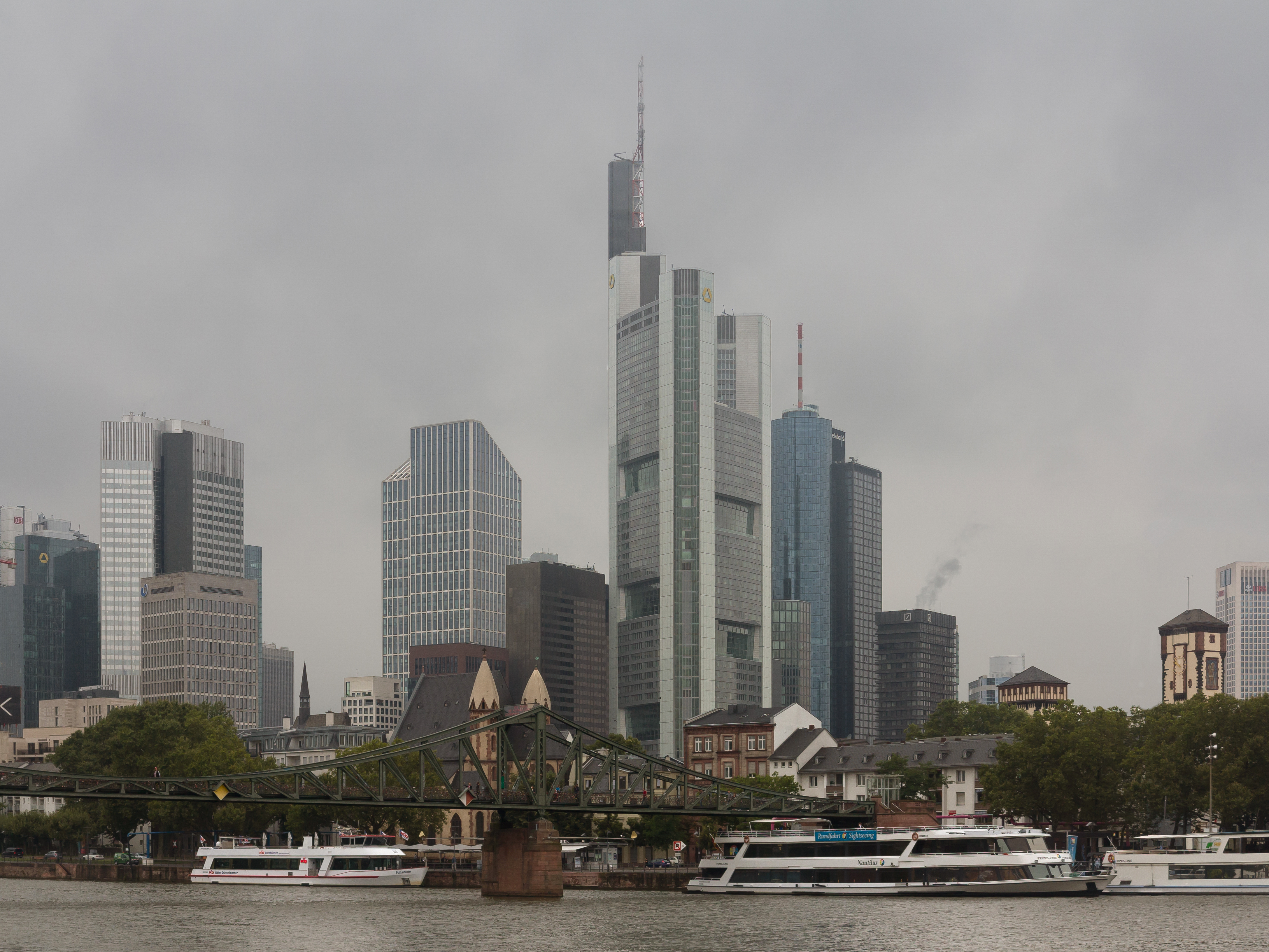 Frankfurt am Main, skyline with bridge (der Eisernen Steg) in the front